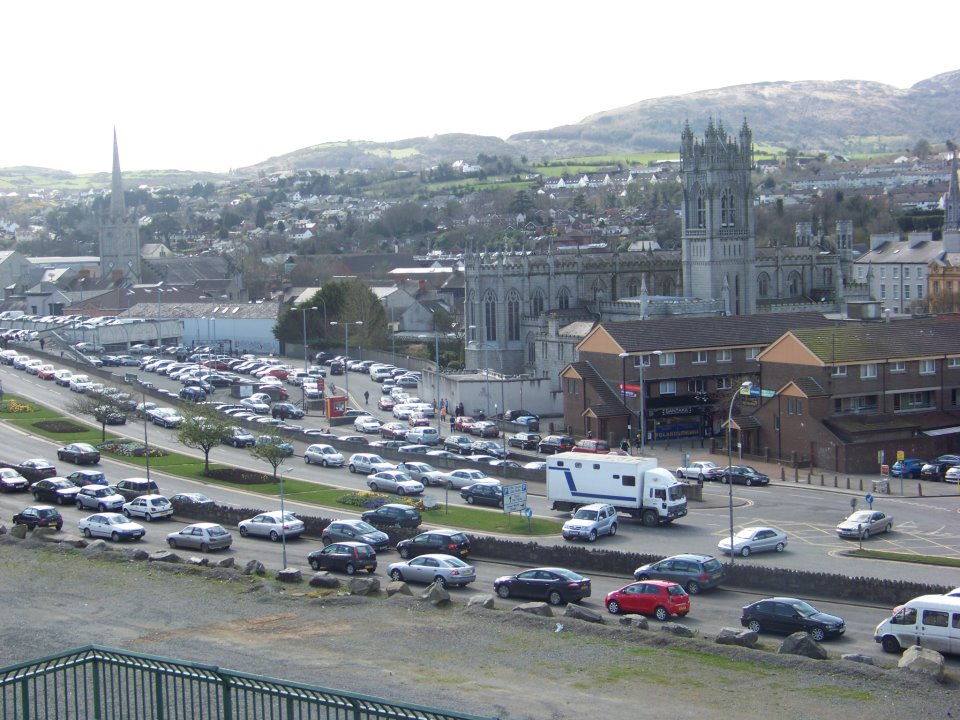 Looking southwest over Newry, with Newry Cathedral in the centre